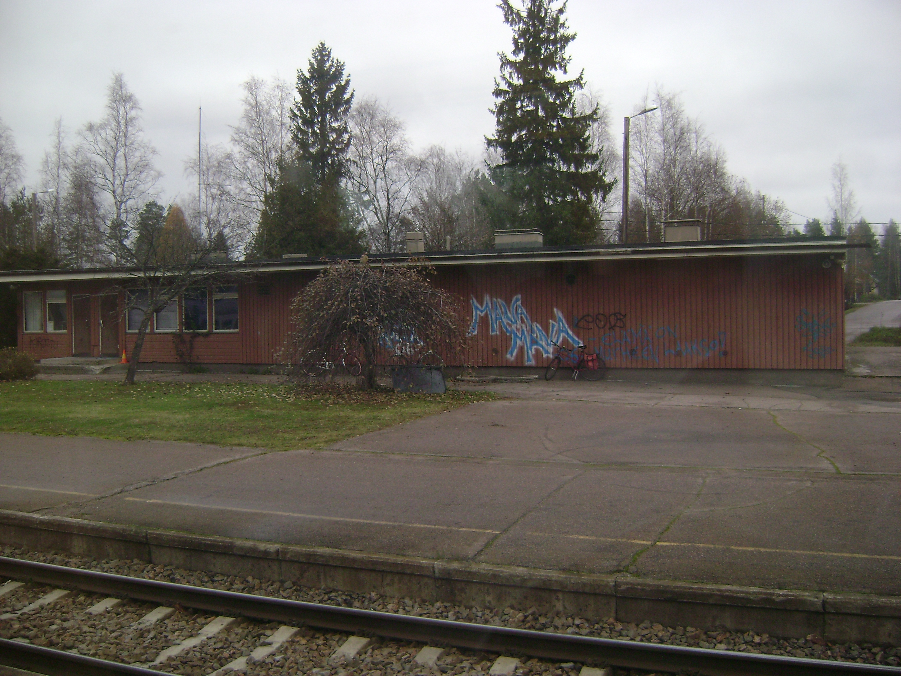 Myllykoski railway station, Kouvola, Finland.